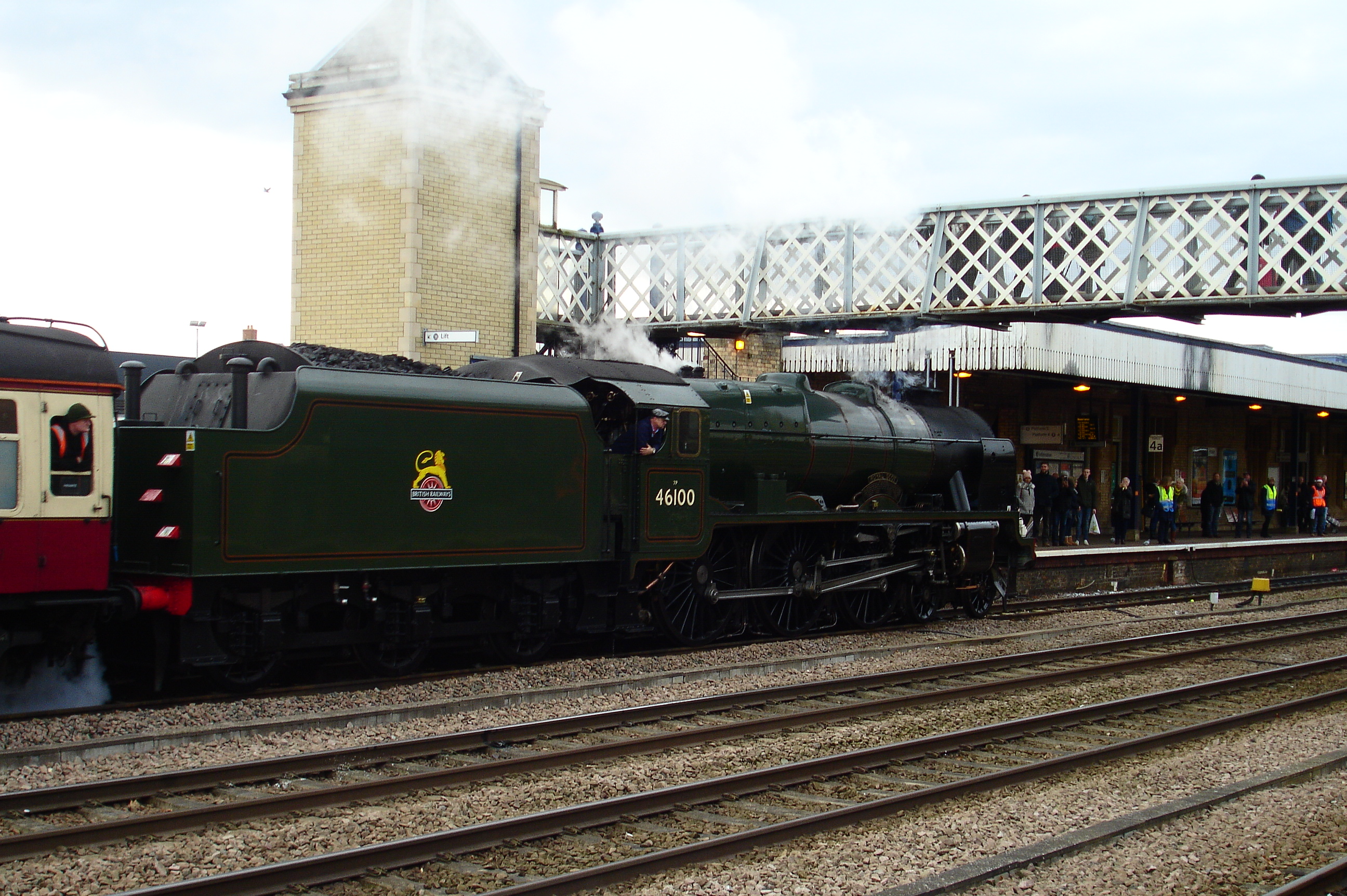 Royal Scot pulling a special charter service.